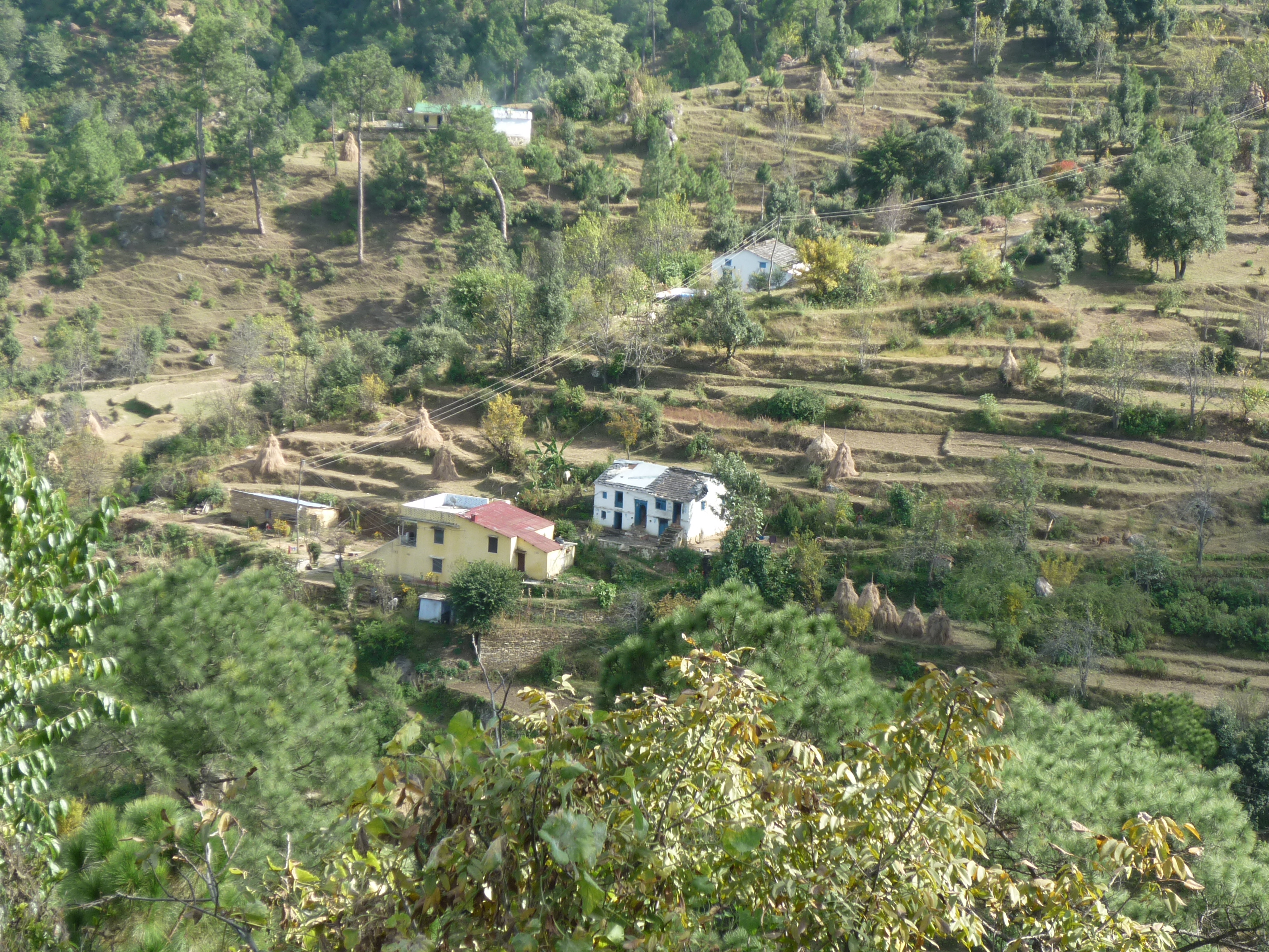 Terraced fields below Kausani, 11/2009